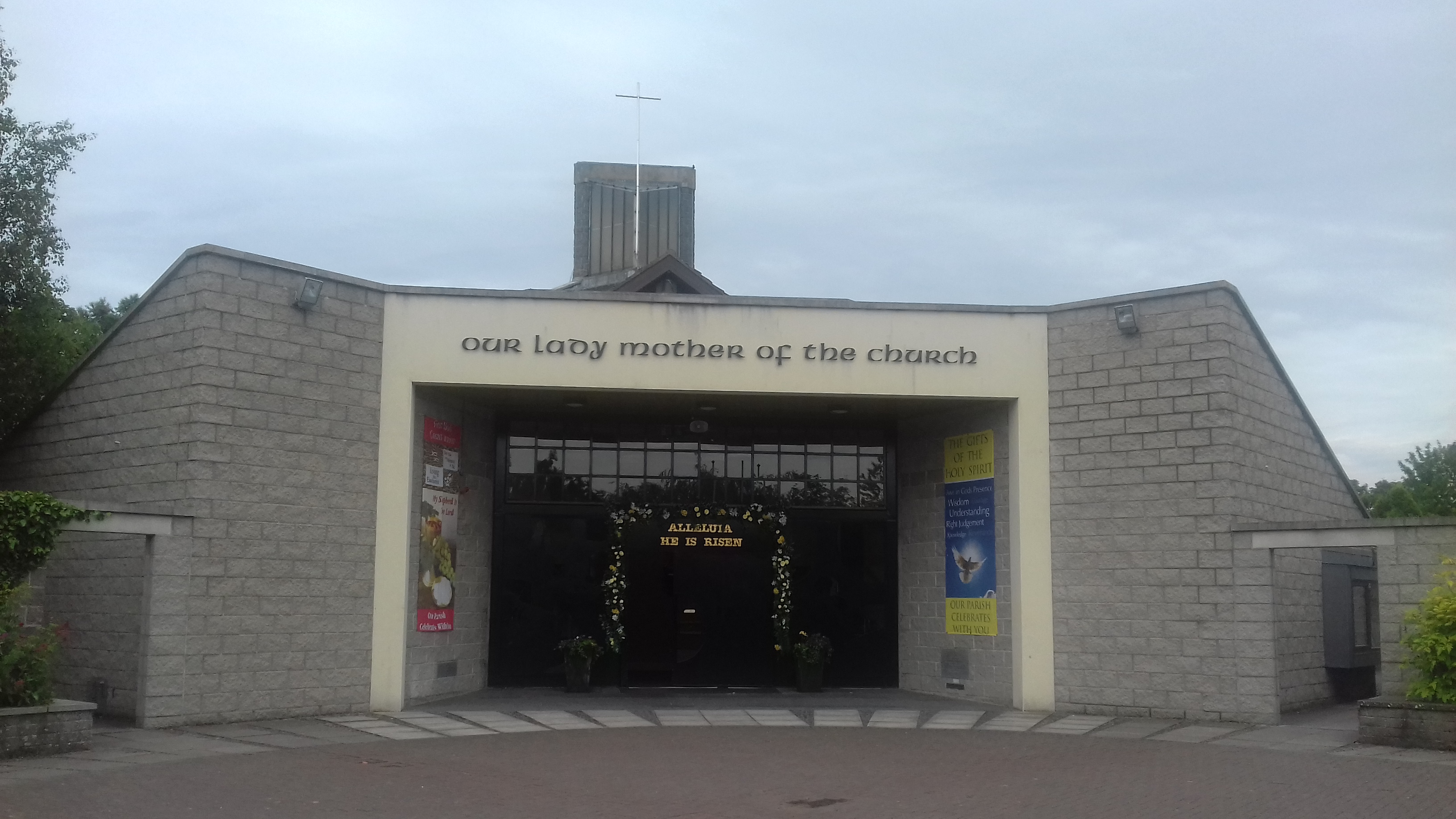 Entrance to the church of "Our Lady Mother of the Church", Castleknock.